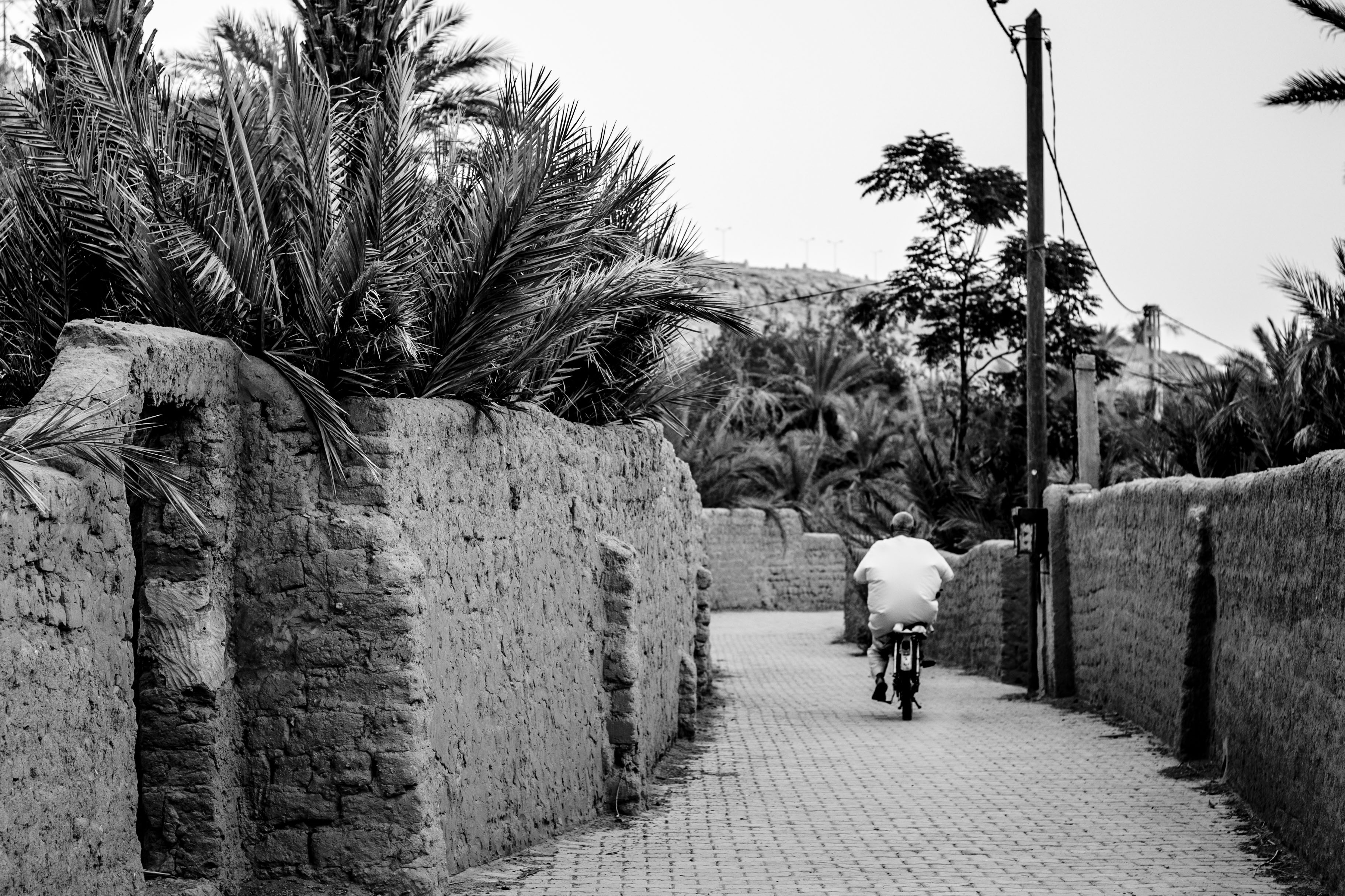 This was taken while shooting a documentary of a daily life of a citizen in Beni Abbes This is an image with the theme "Africa on the Move or Transport" from: Algeria